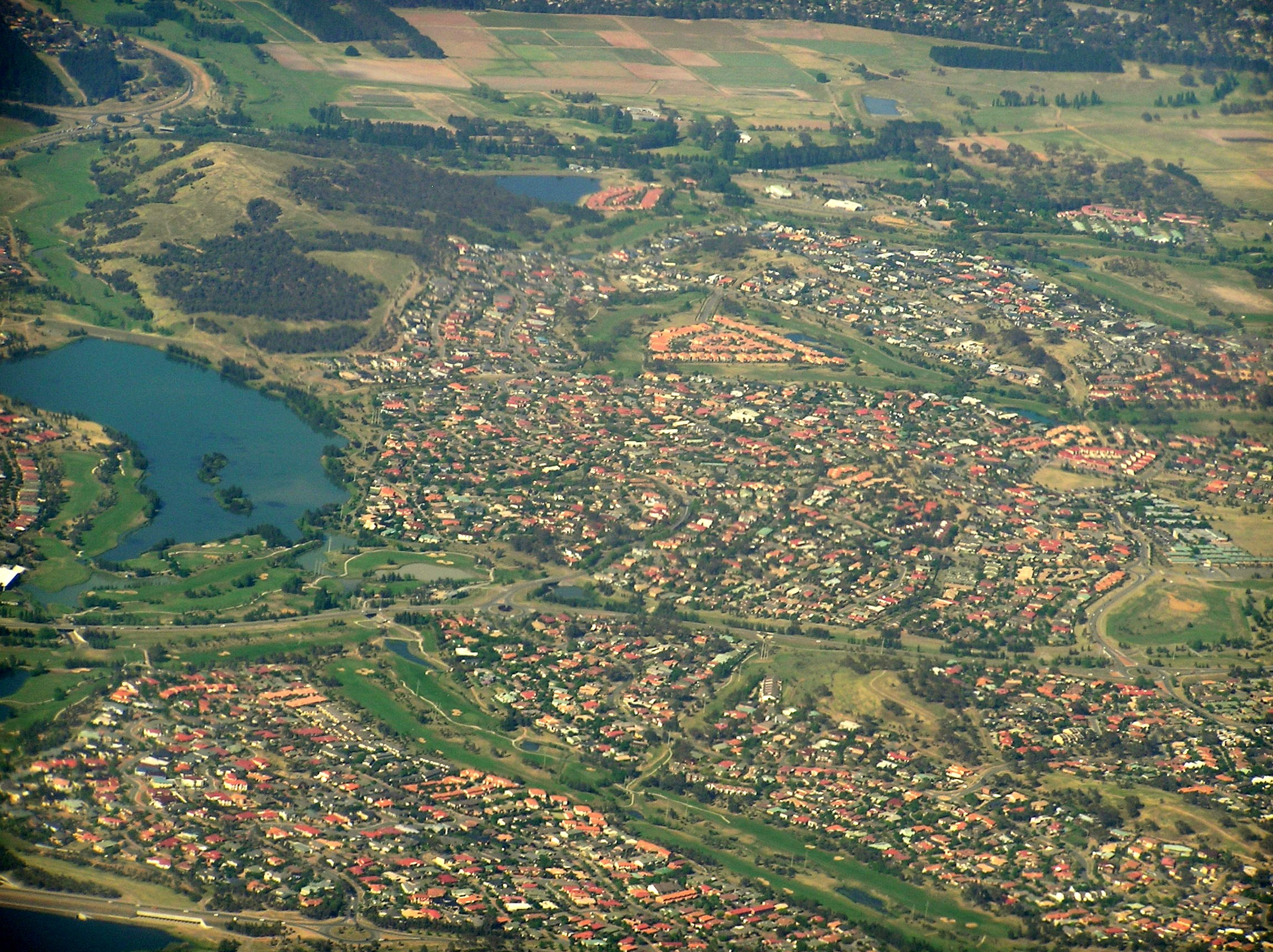 Aerial view of Nicholls from north, Ngunnawal in foreground